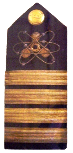 Photograph of NS Savannah engineering captain shoulder board. Artifact on display at American Merchant Marine Museum.